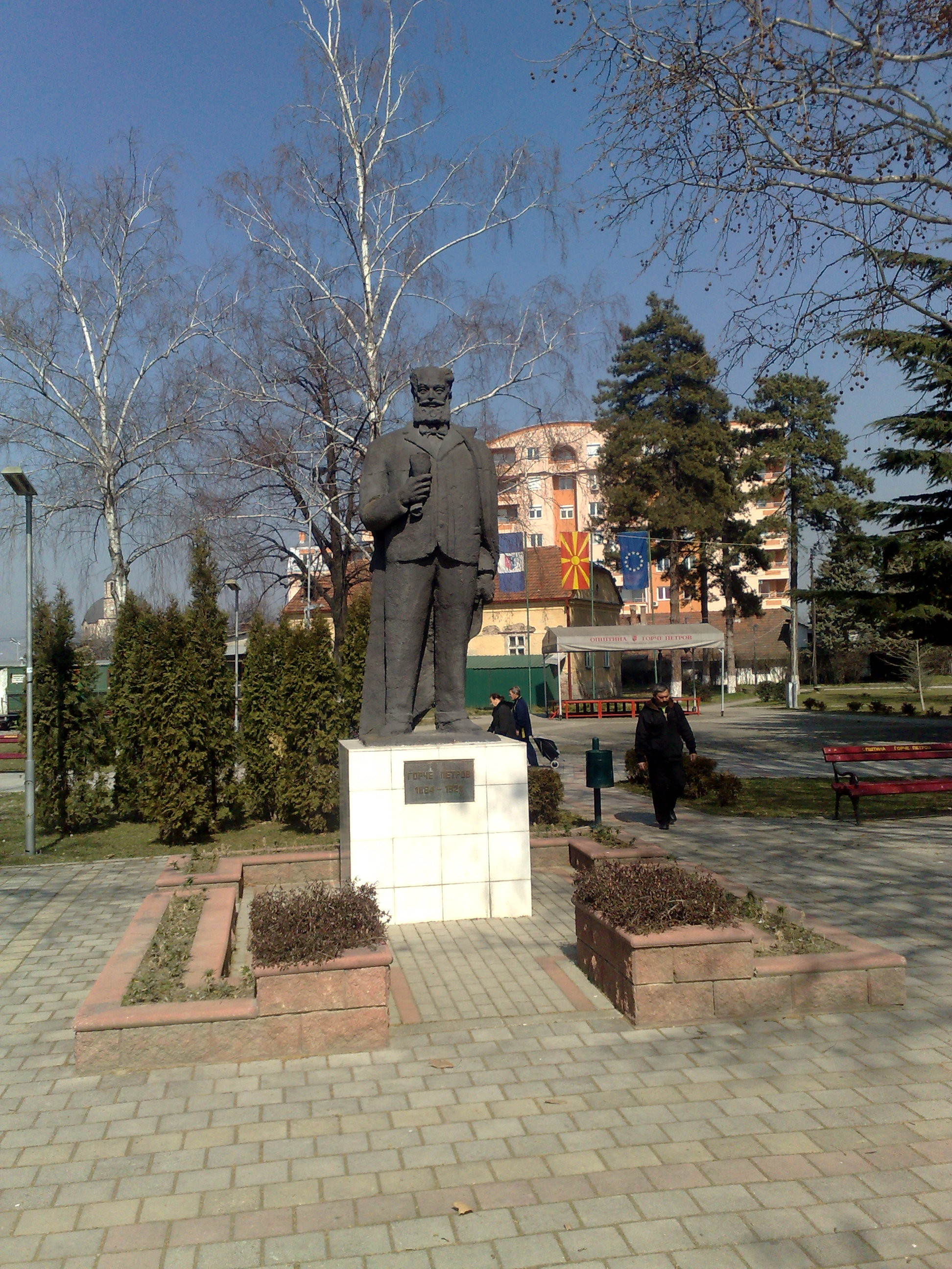 The monument of the Macedonian revolutionary Gjorche Petrov in the park in the suburb of Gjorche Petrov, Skopje, Macedonia